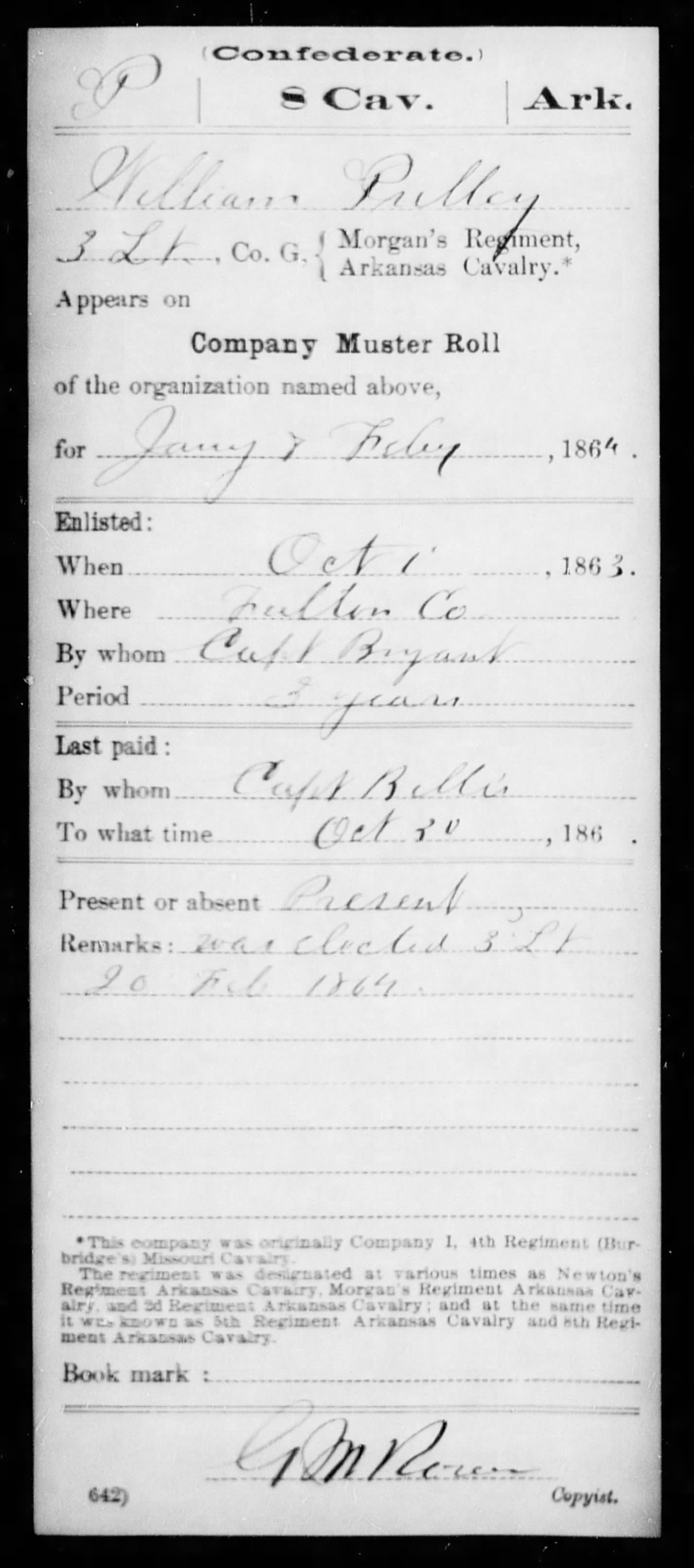 In the late 1800s, the United States government began compiling all records to the American Civil War. For individual soldiers, records of their duty was transcribed onto "Service Records". An individual card was created for each entry found in an official record. This particular service record shows the name of the Civil War soldier, his military unit, when he enlisted, when he was last paid, and any other pertinent information.